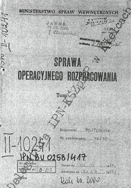 Sowa - SOR Politechnik - First Page